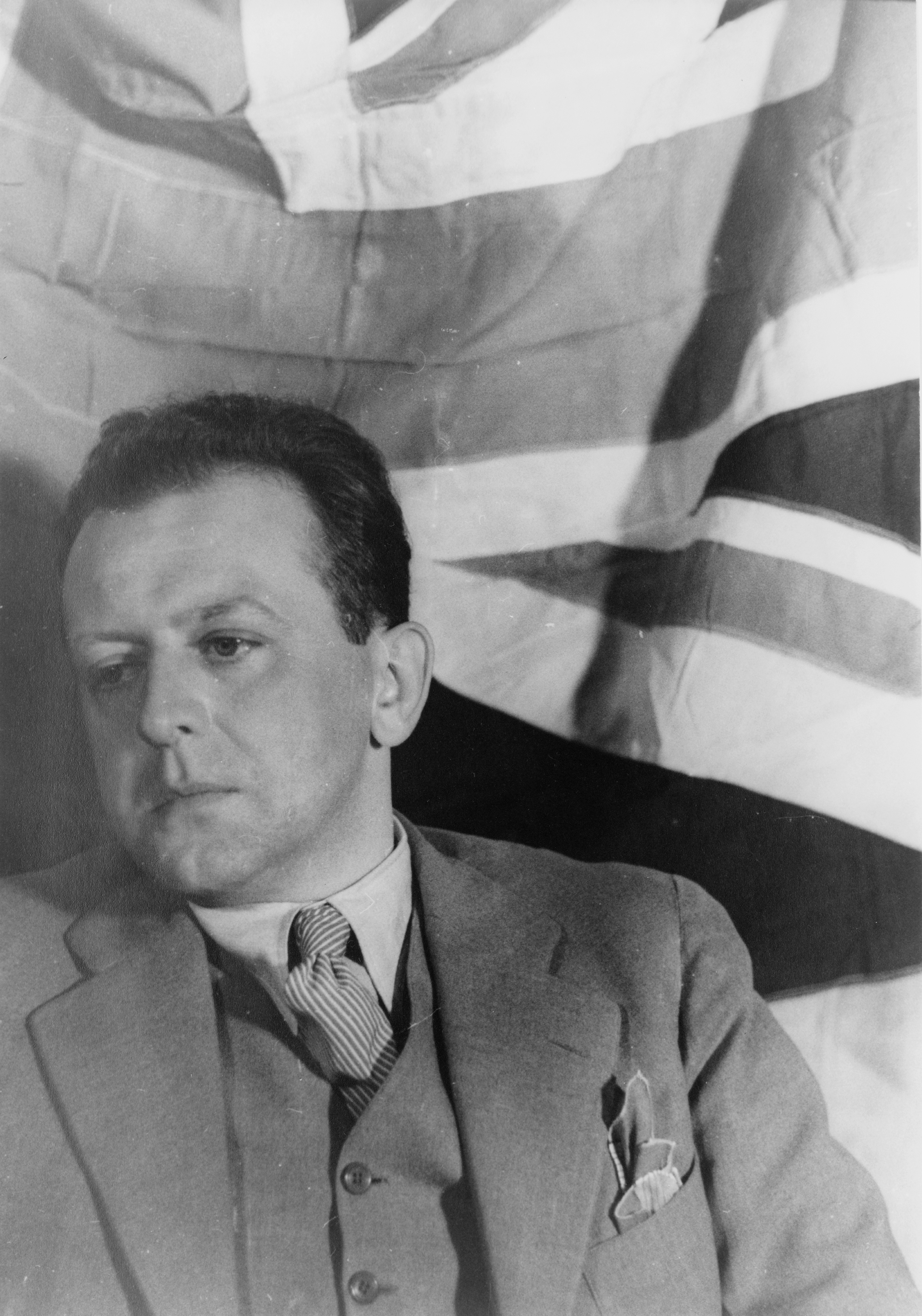 Colin McPhee photo taken by Carl Van Vechten, photographer. CREATED/PUBLISHED 1935 Apr. 4. Colin McPhee